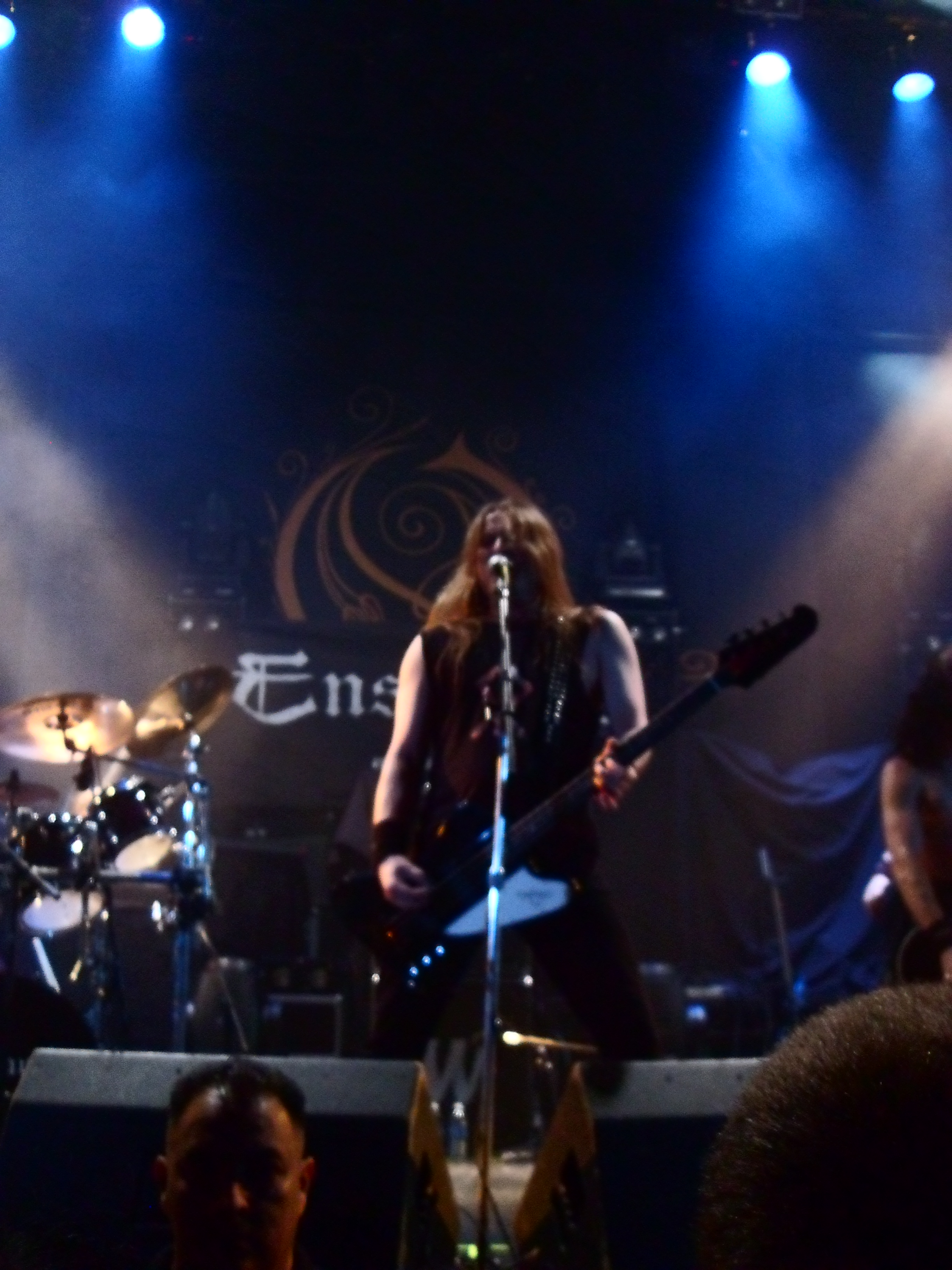 Grutle Kjelson of Enslaved live at The Avalon 2009